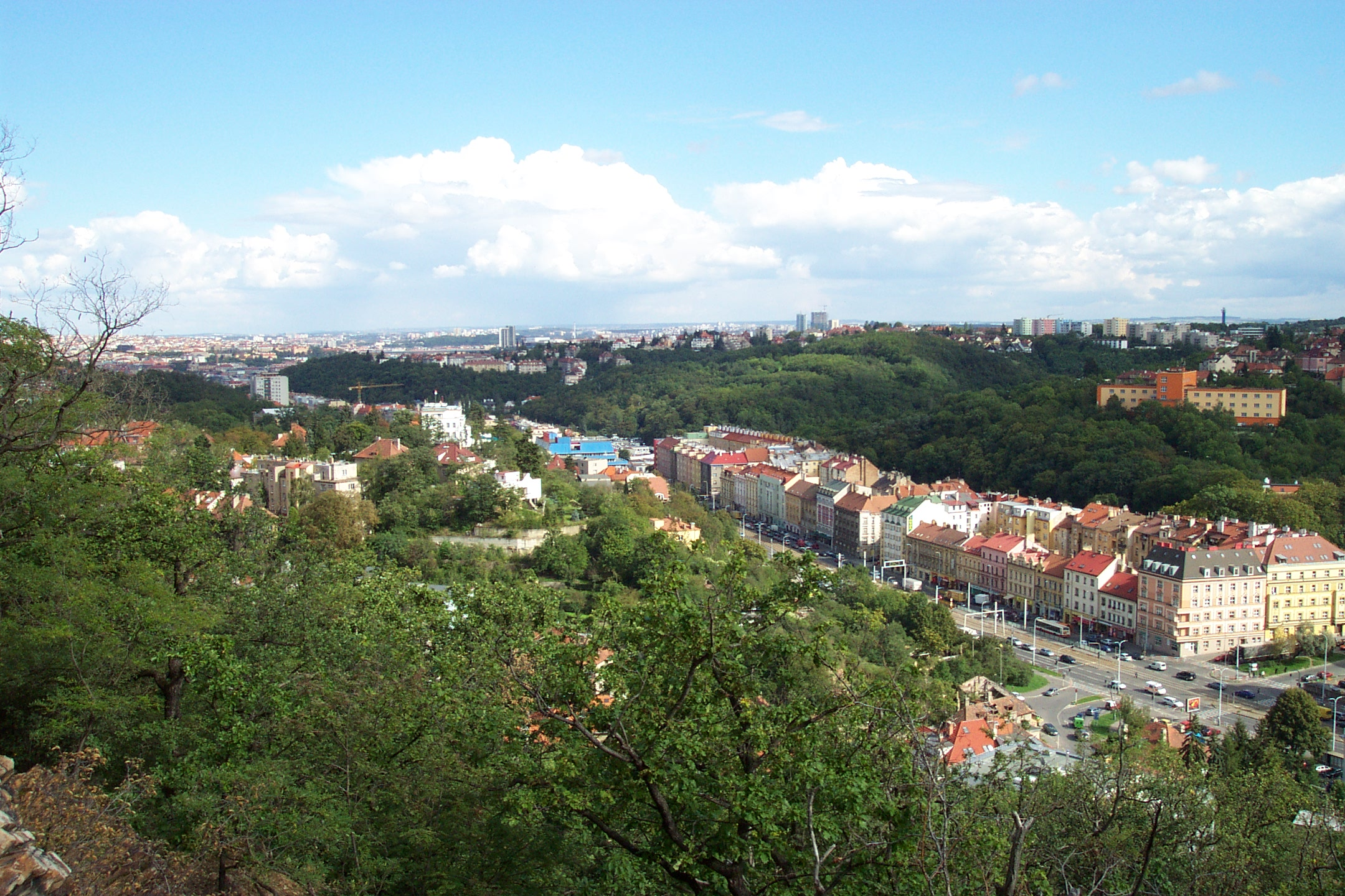 View from the Skalka hill in Prague-Smíchov to surrounding parts of Prague (see filename)